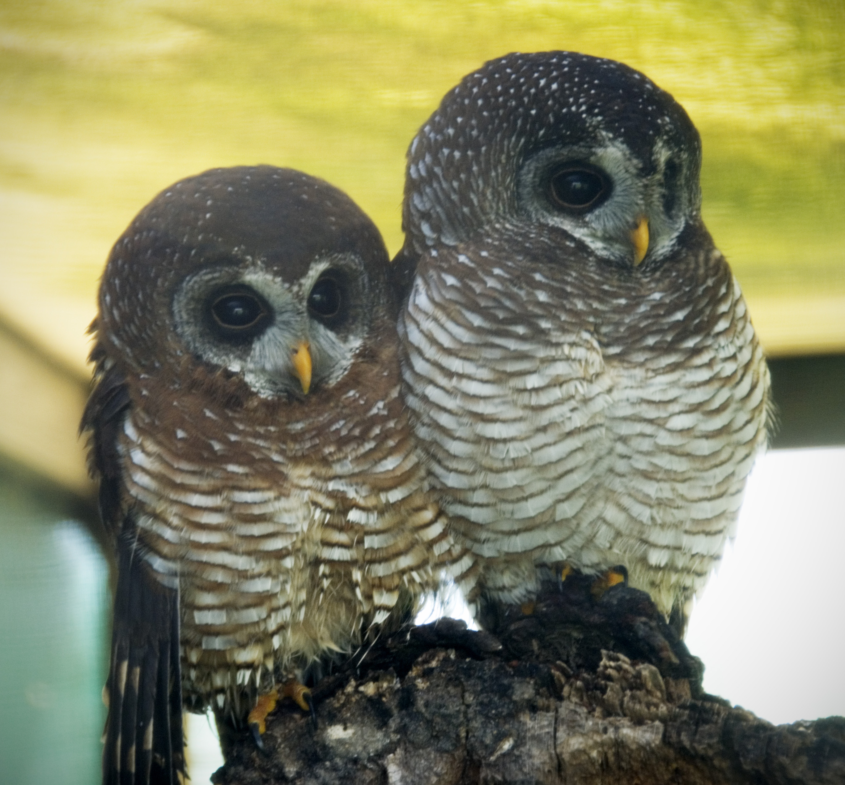 A pair of African Wood-owls (Strix woodfordii).